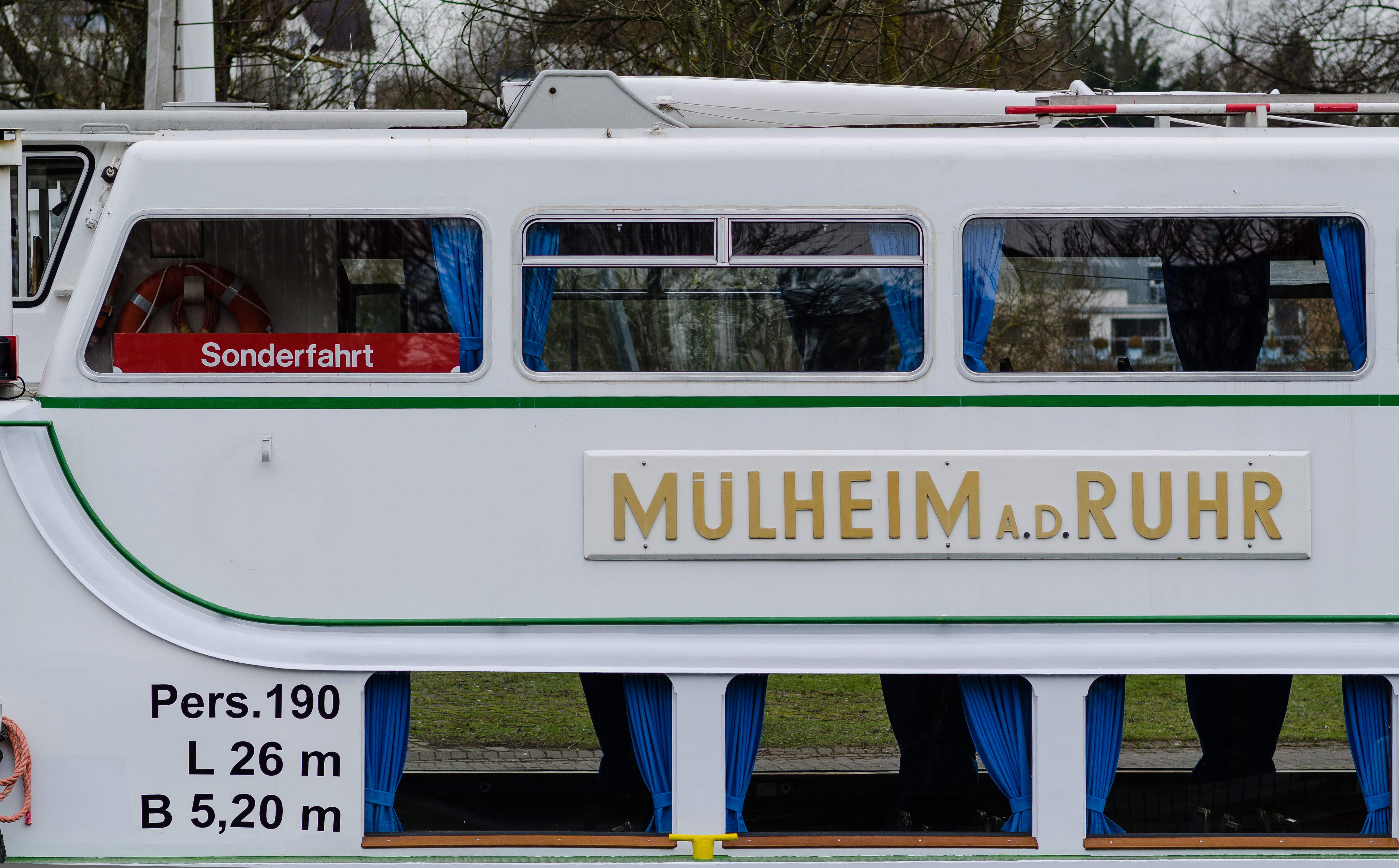 Detail shot of the ship "Mülheim an der Ruhr" of the white fleet